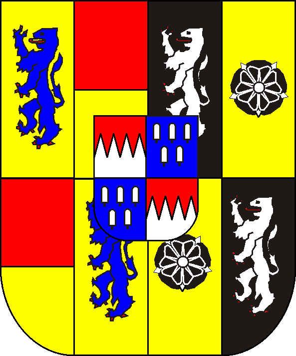 coats of arms of the counts of Solms-Rödelheim-Assenheim (1802); 1,6: county of Solms; 2,5: lordship of Münzenberg; 3,8: lordship of Sonnenwalde; 4,7: lordship of Wildenfels; heart: county of Limpurg